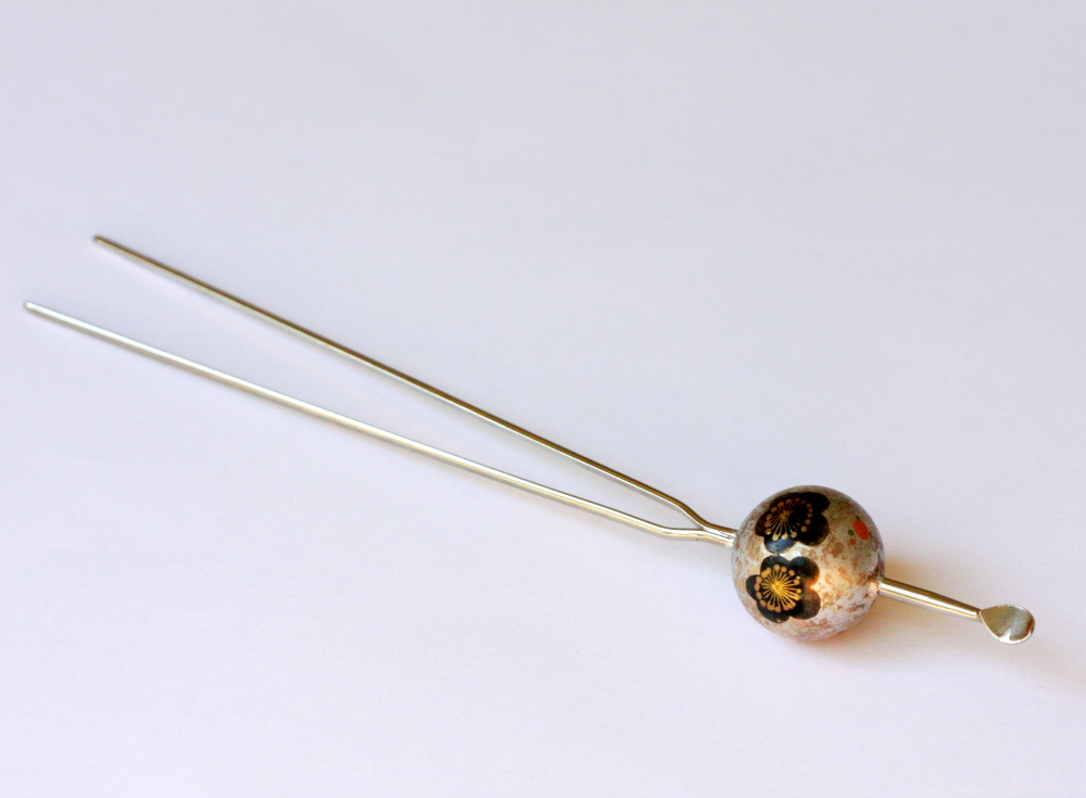 Mimikaki kanzashi. Original mimikaki kanzashi doesn't have the ball.